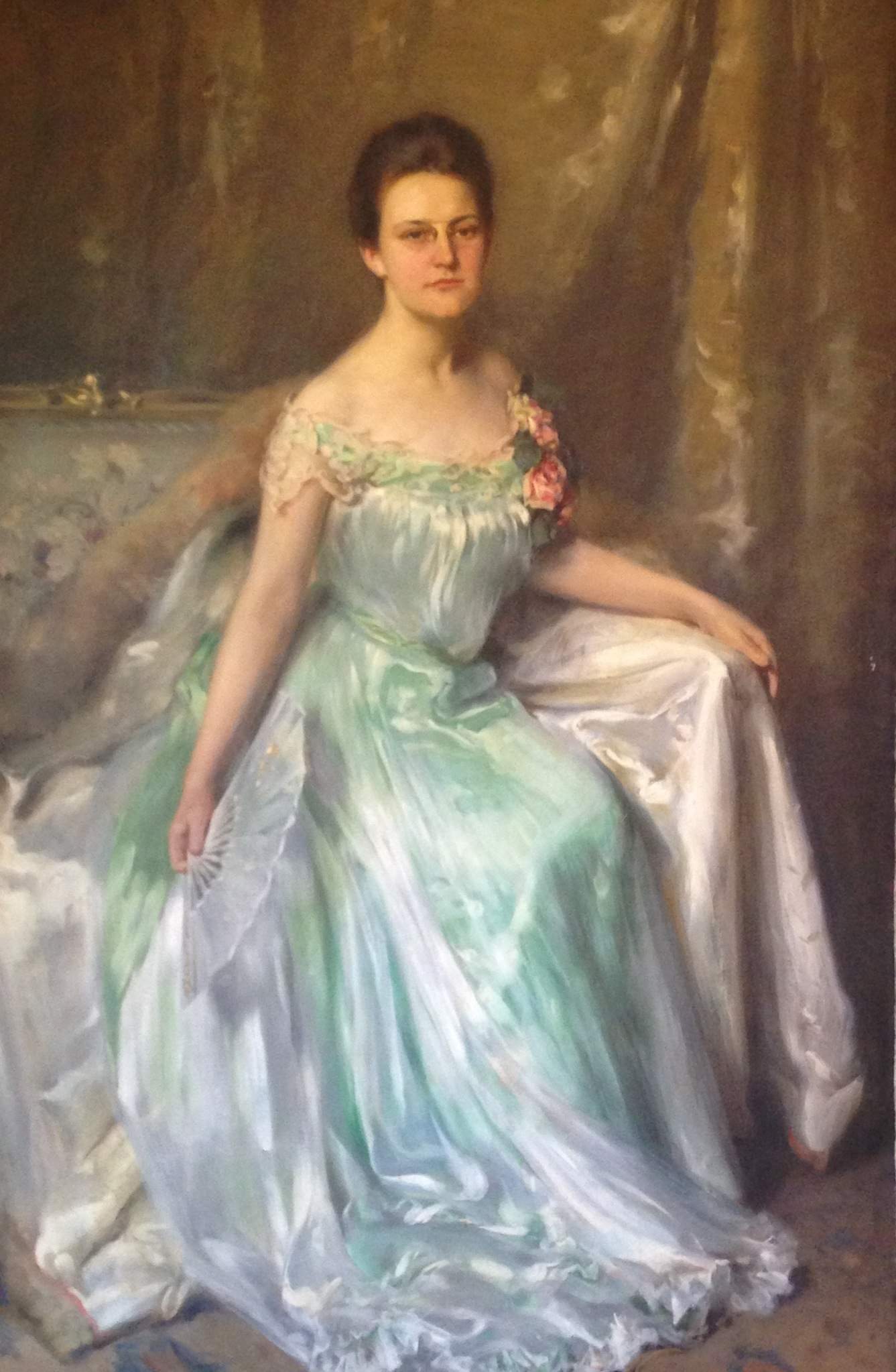 Portrait of Juliet Inness, grand-daughter of famous American painter, George Inness, done in 1903 by Irving Ramsey Wiles, signed upper left.